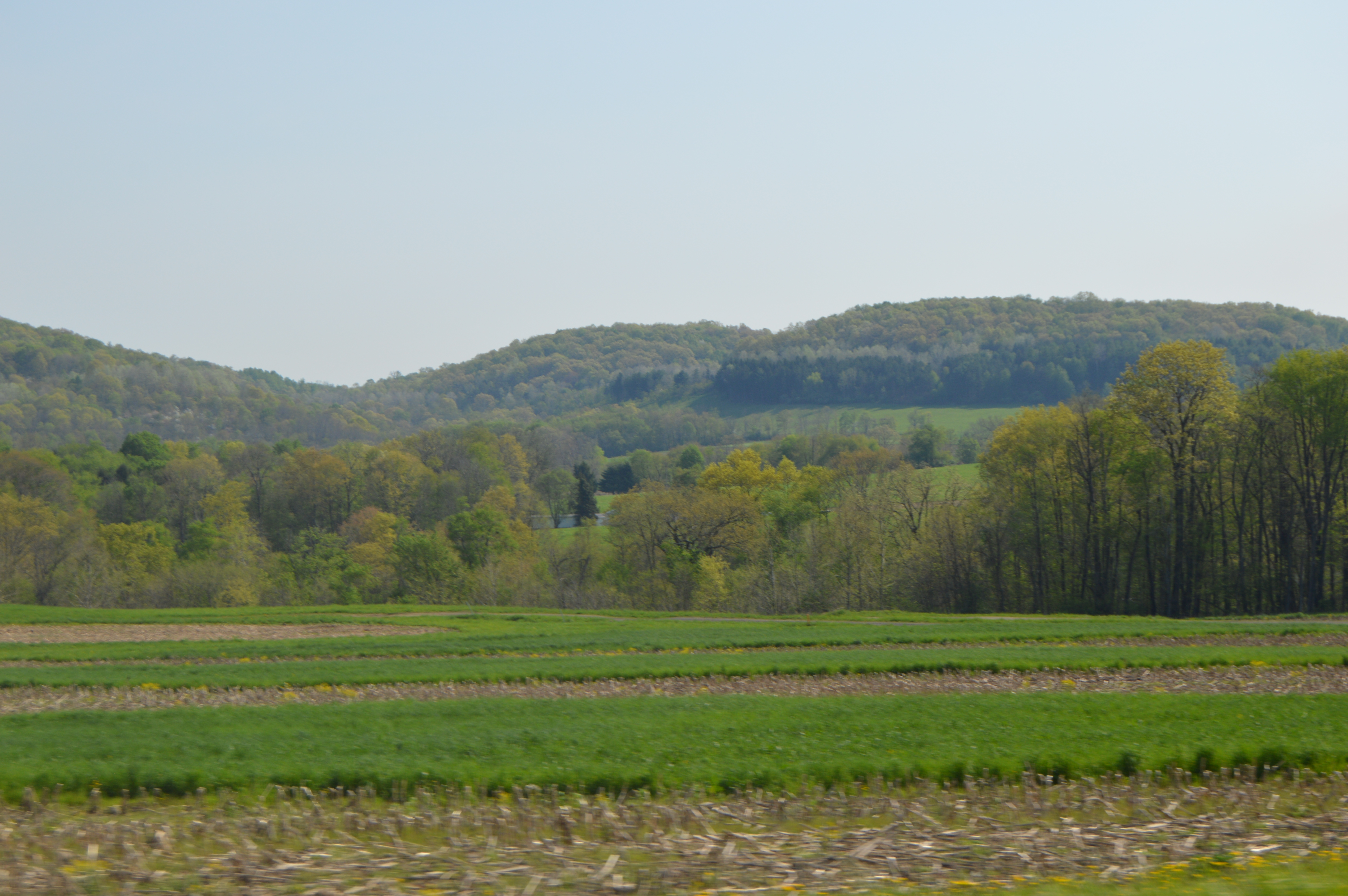 Wooded hills in South Bend Township, Armstrong County, Pennsylvania, United States, seen looking north from Pennsylvania Route 56.